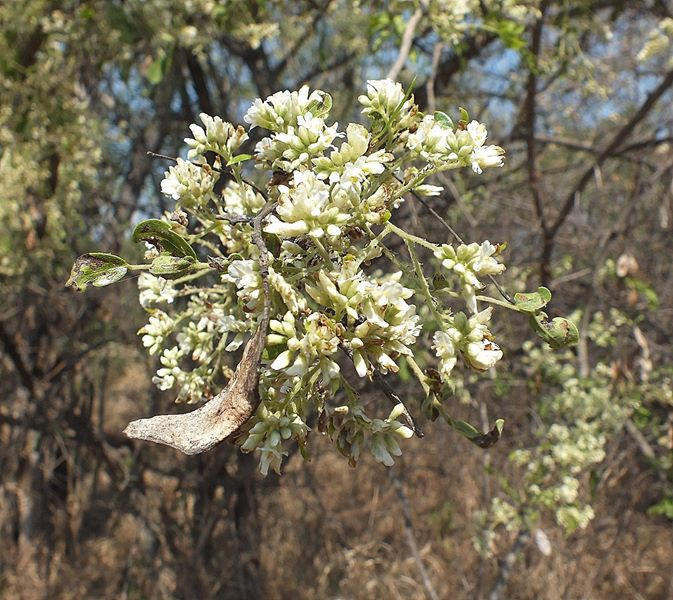 Dalbergia melanoxylon Guill. & Perr. - nr Phalaborwa, South Africa